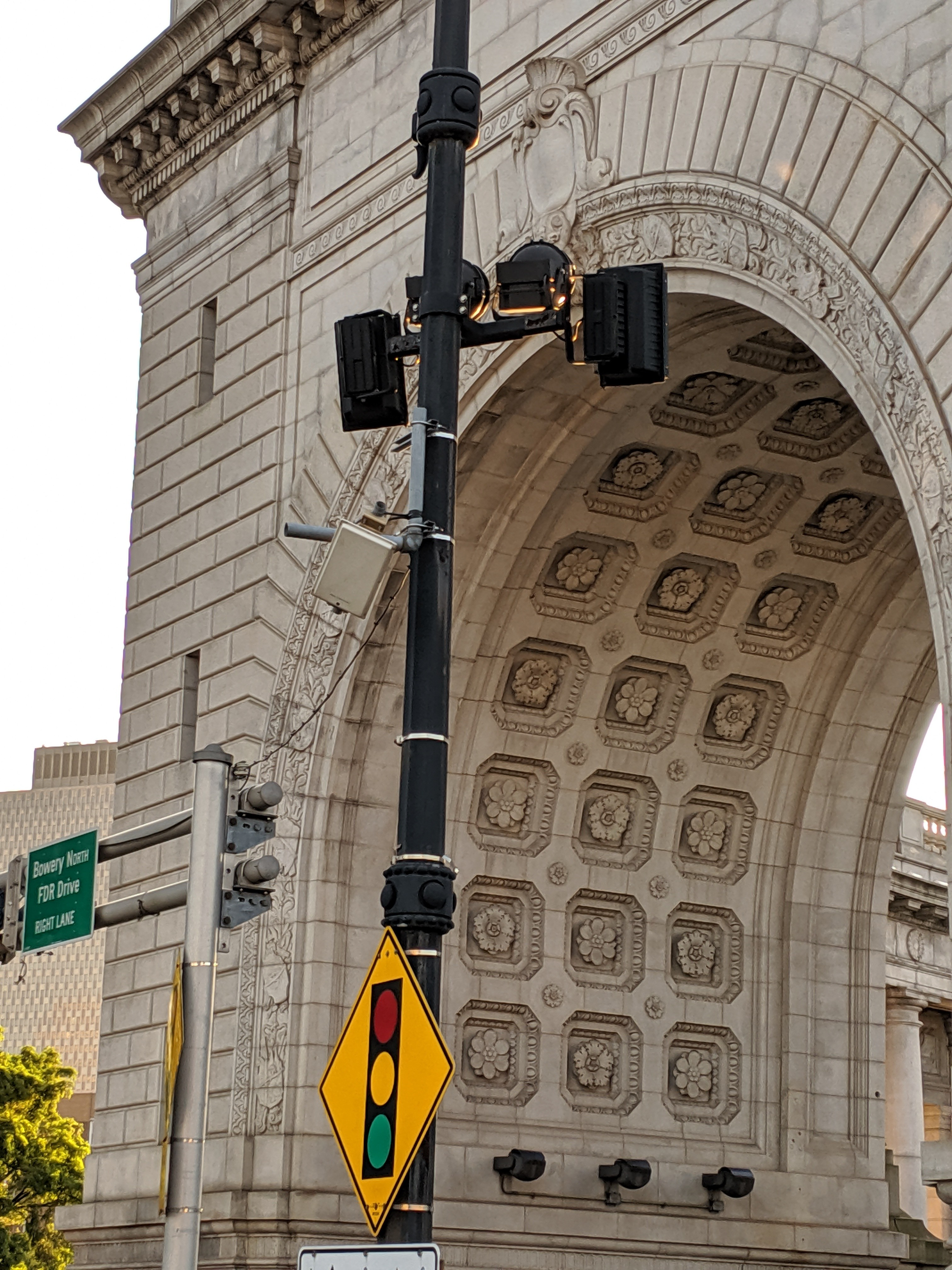 Multiple electronic devices mounted on light pole in lower manhattan.